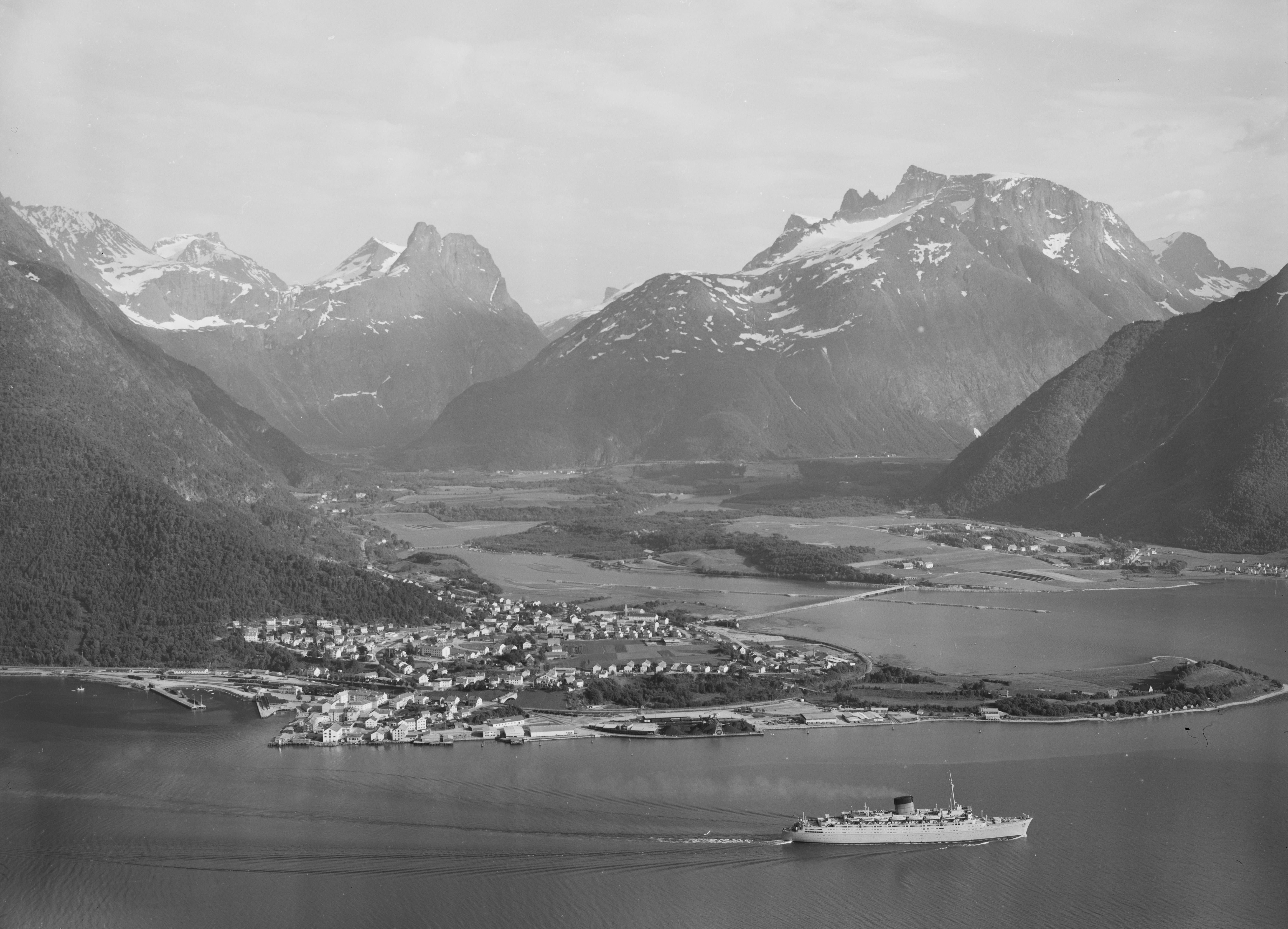 The RMS Caronia in front of Åndalsnes, Norway